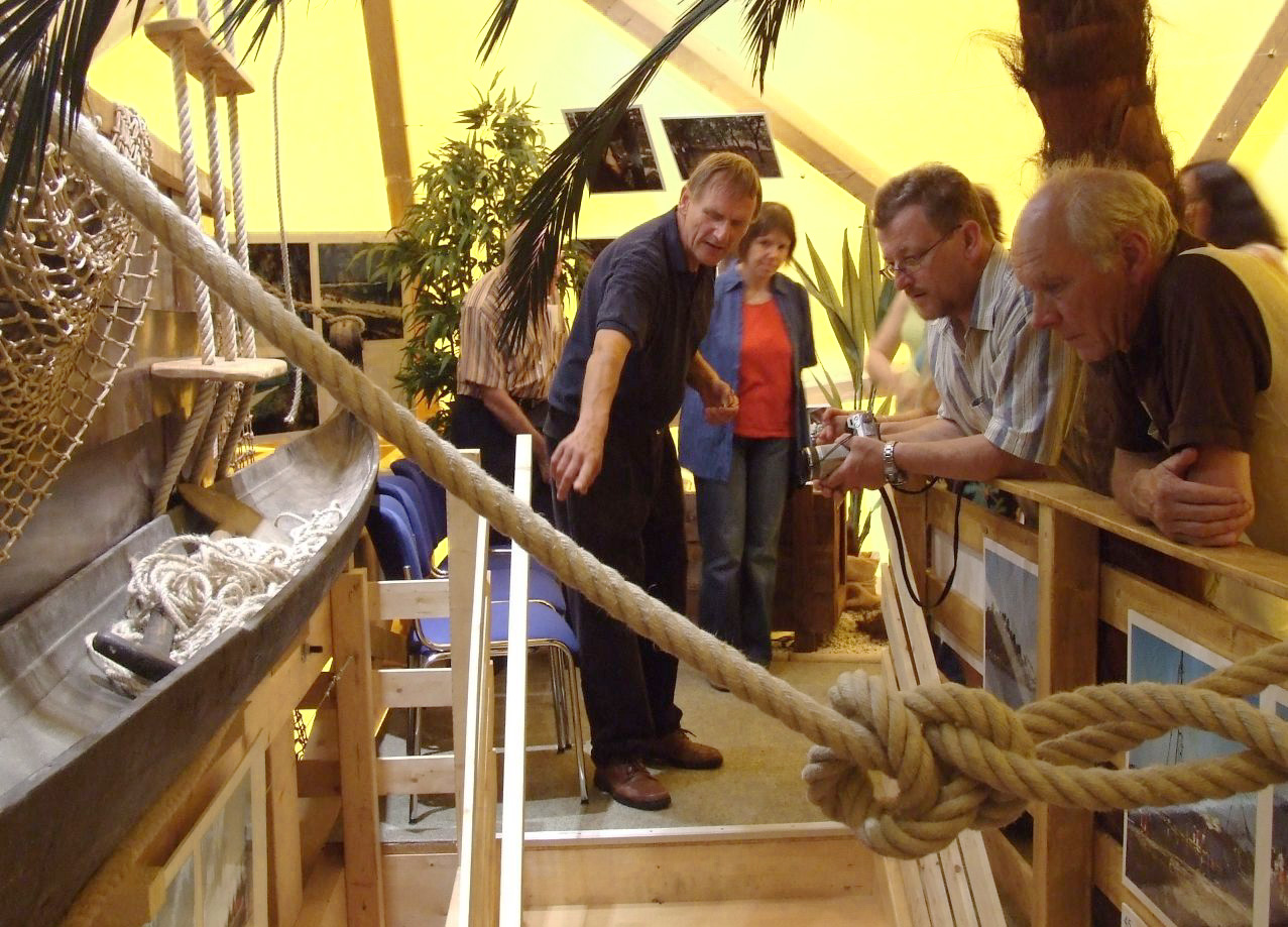 The top floor in the inside of the Mercateum in Königsbrunn, Germany. In the center Dr. Knabe, the other people are visitors.